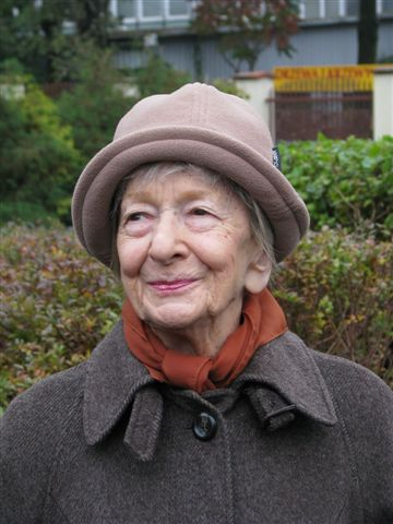 Wisława Szymborska (b. July 2, 1923 in Bnin, Poland), Polish poet, and Nobel Prize winner. She lives in Cracow, Poland